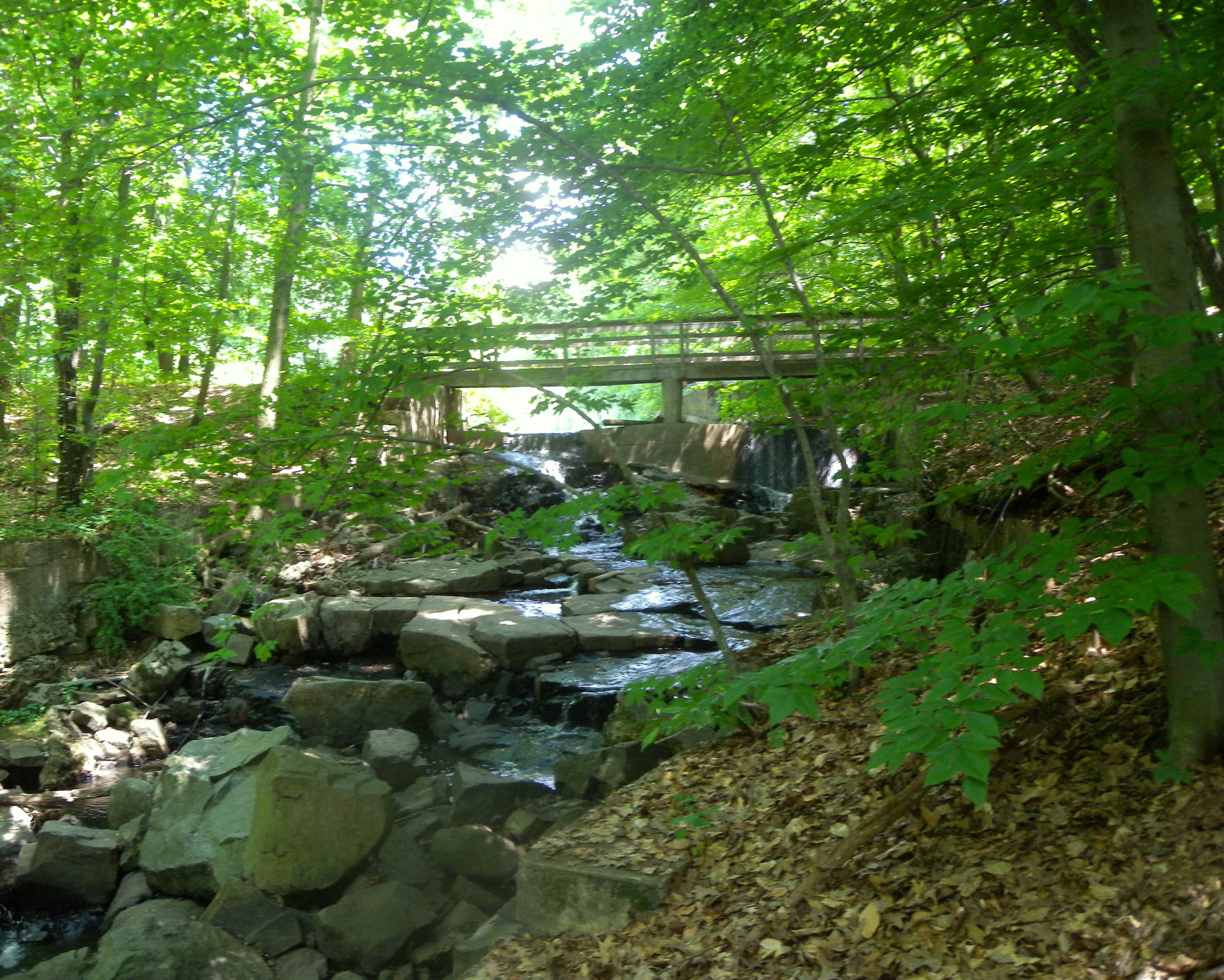 Looking upstream at dam on flat Rock Brook on a mostly sunny midday.